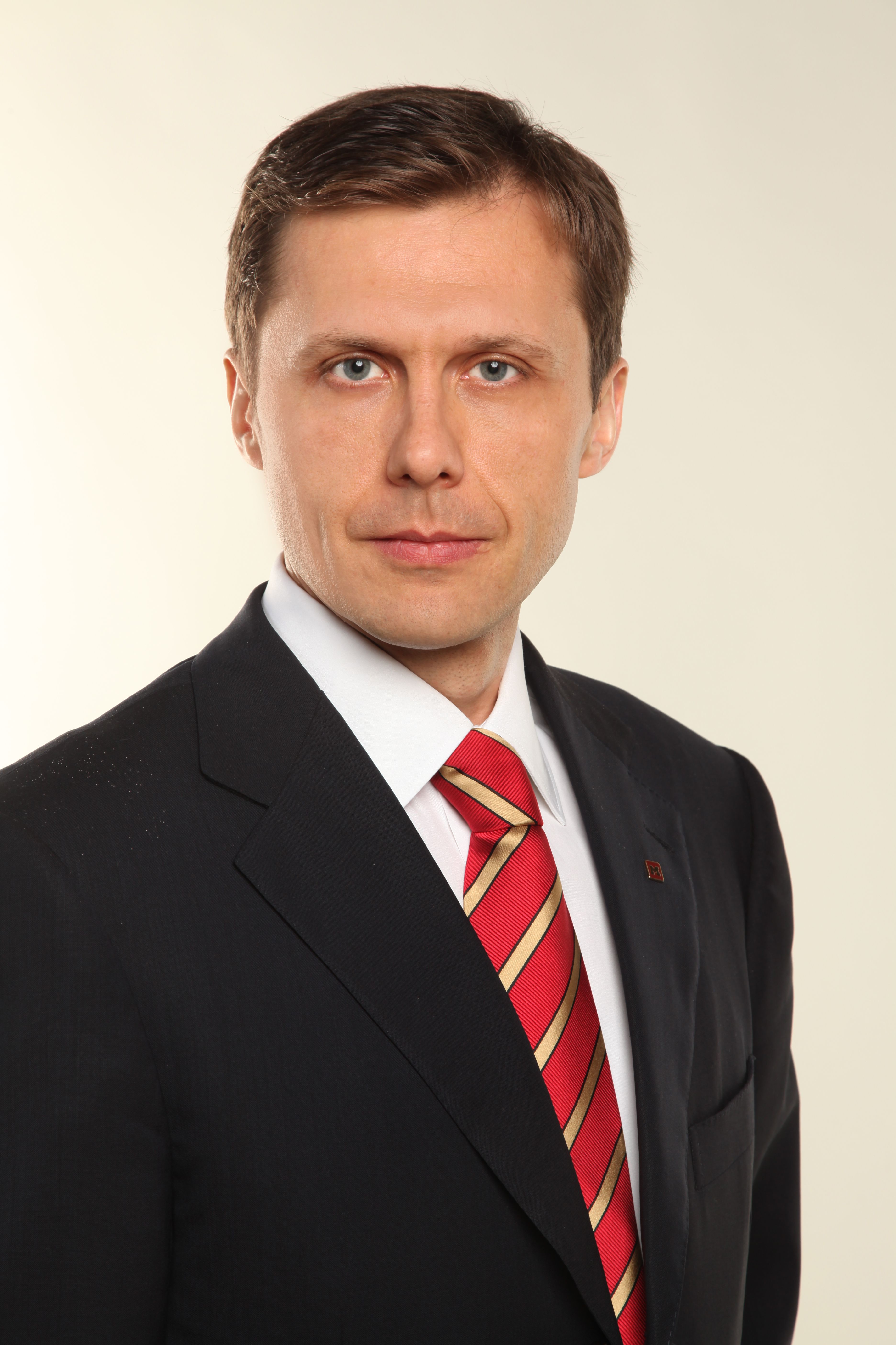 2012 portrait of Ihor Shevchenko, Minister of Ecology and Natural Resources 2014